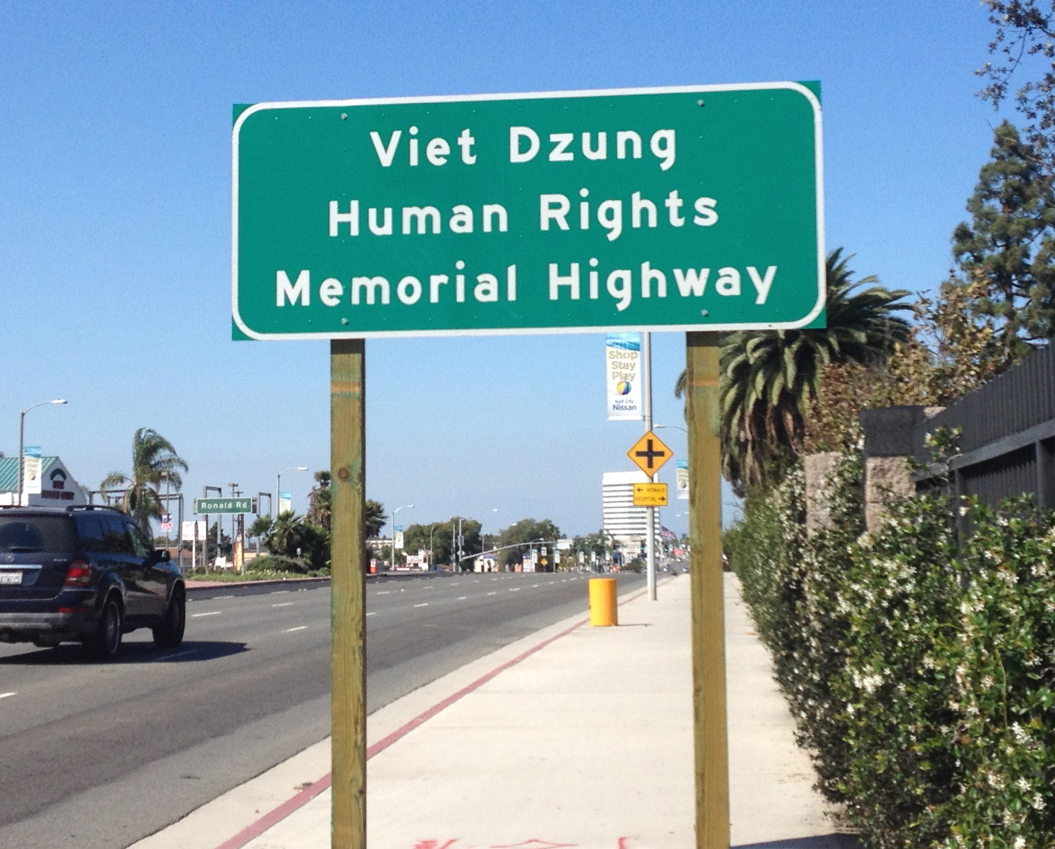 Beach Boulevard (CA 39)